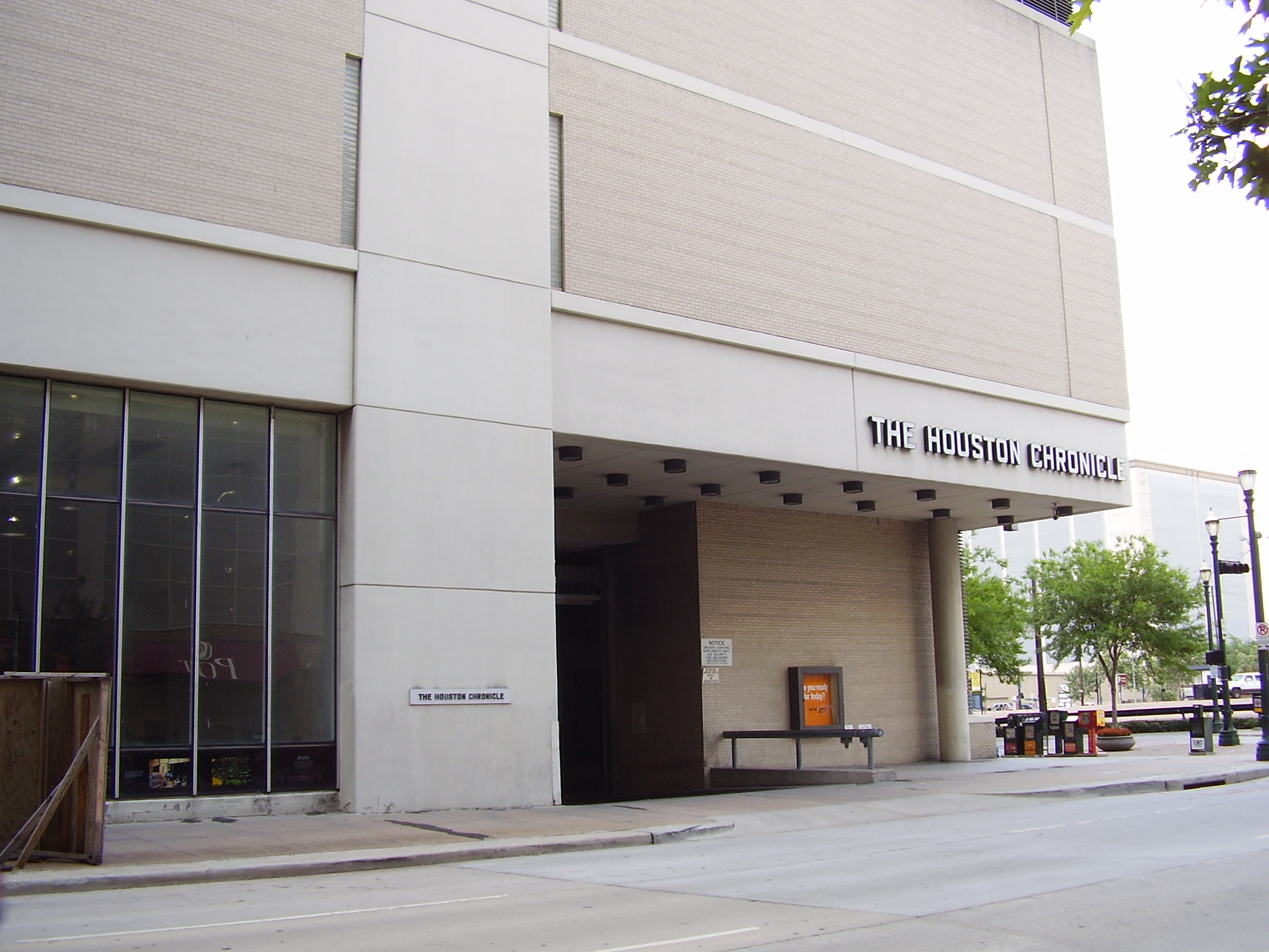 Houston Chronicle headquarters